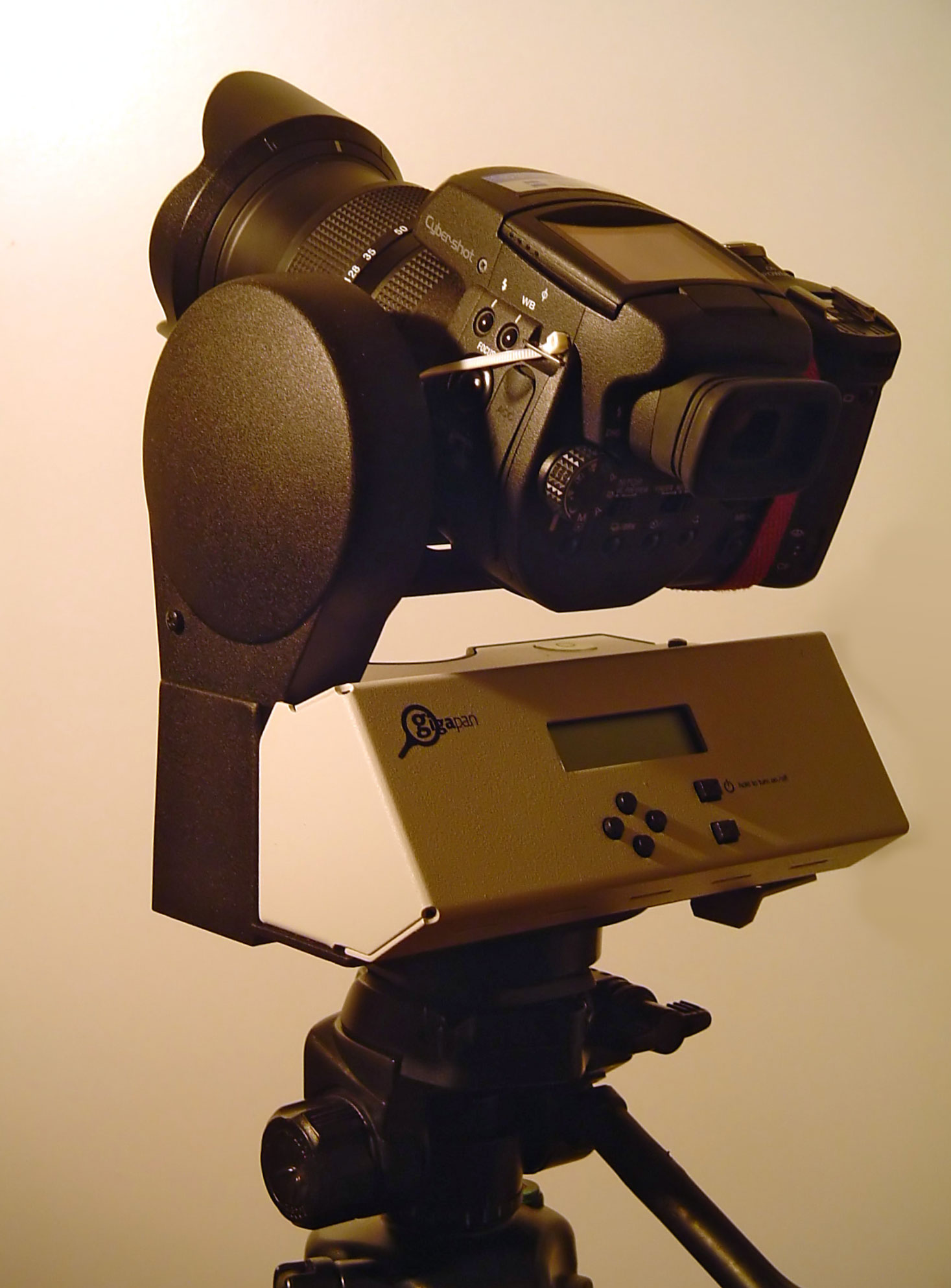 Gigapan imager with a Sony DSC R1. More infos under